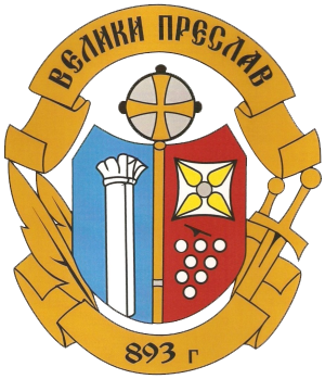 Coat of arms of Veliki Preslav, Bulgarien